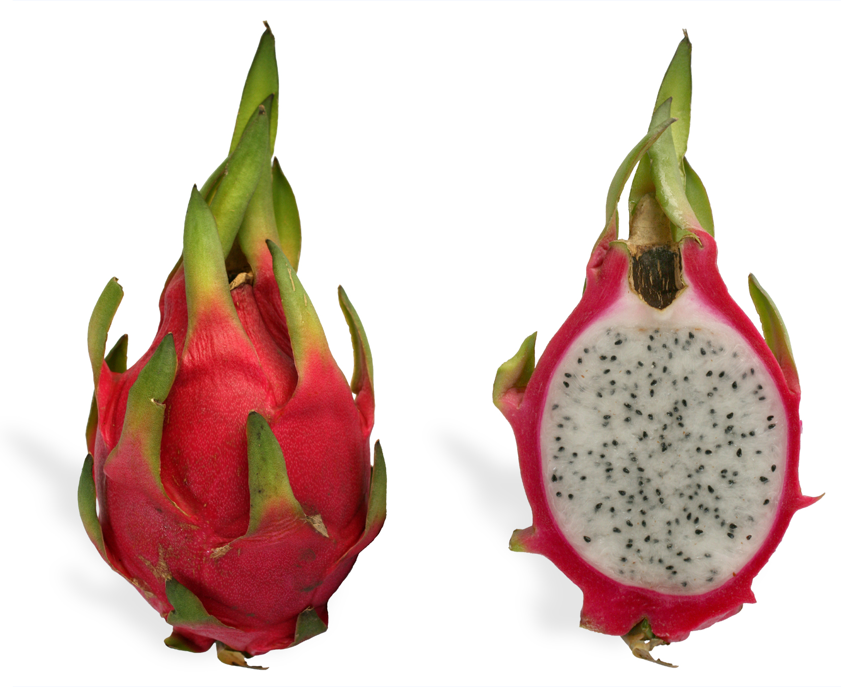 Cross section of a pitaya, also know as dragonfruit.